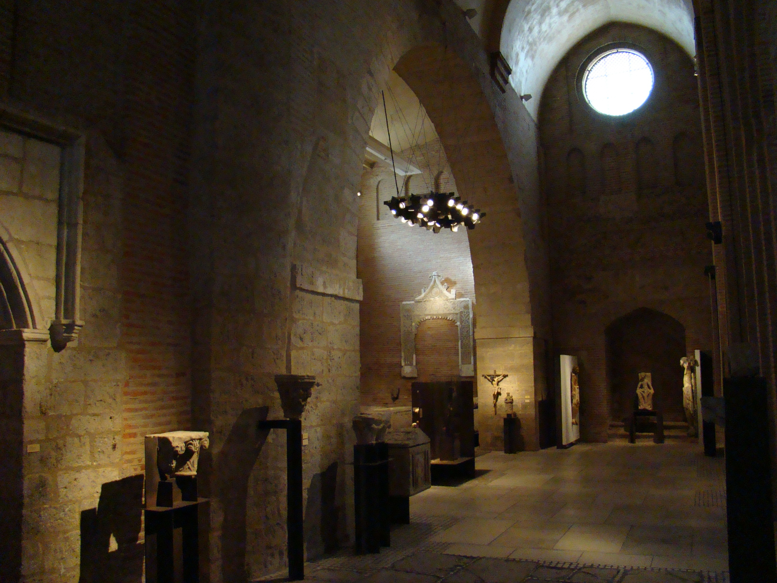 Interior of the romanesque-mudejar church of San Salvador de Toro, Zamora (Spain).